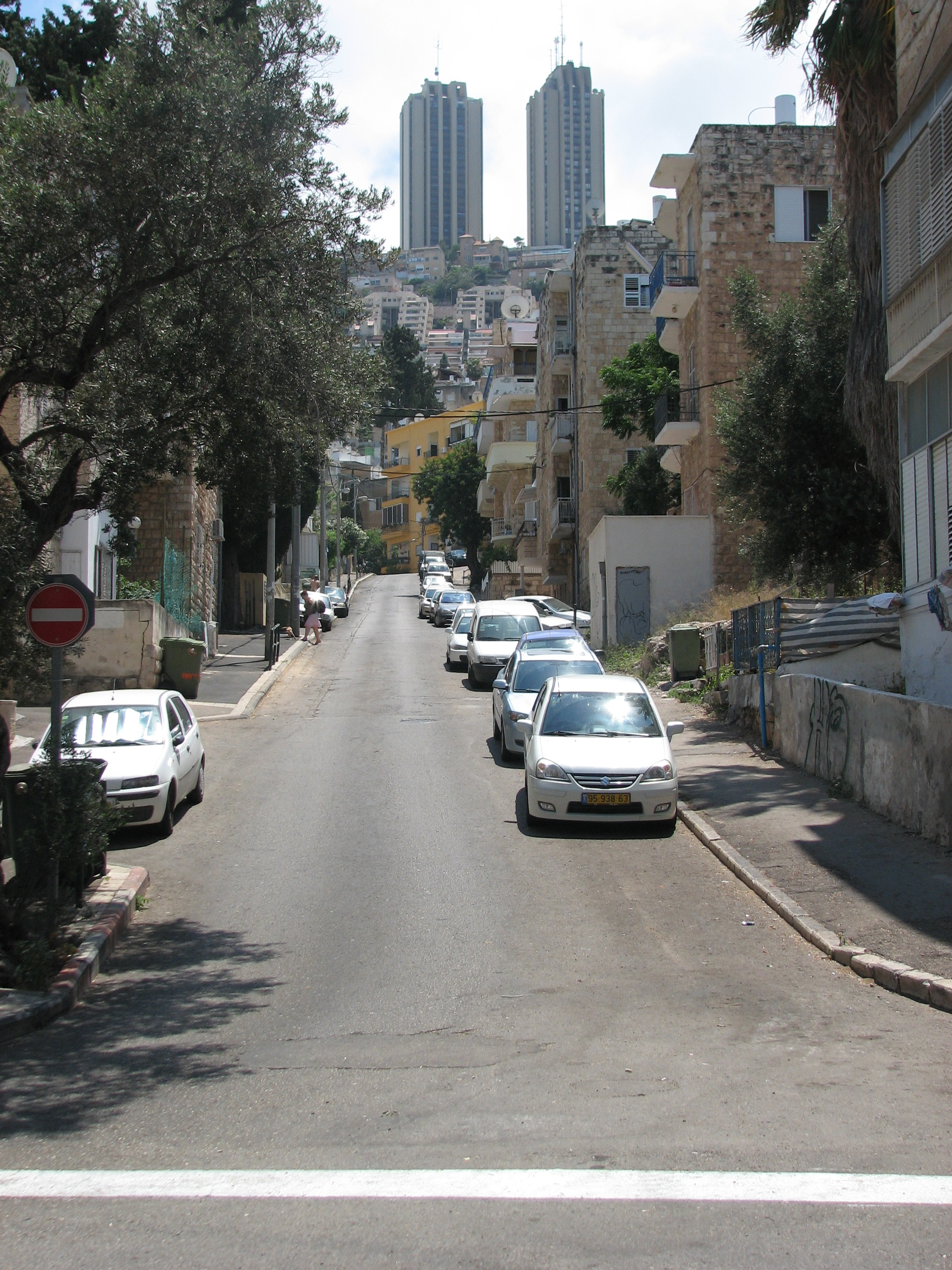 HaShalom Street ("Peace Street") in Hadar, Haifa, looking south. Houses on both sides nowadays are populated mostly by Arabs as well as by post-Soviet immigrants. The "twin towers" on top of the hill are the Dan Panorama Hotel & Panorama residential condominium.